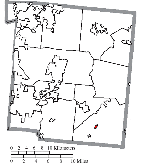 Map of the municipal and township boundaries of Warren County, Ohio, United States, as of the 2000 census, with the location of the village of Butlerville highlighted. Township borders are shown only in unincorporated areas in order to differentiate incorporated and unincorporated areas more clearly.